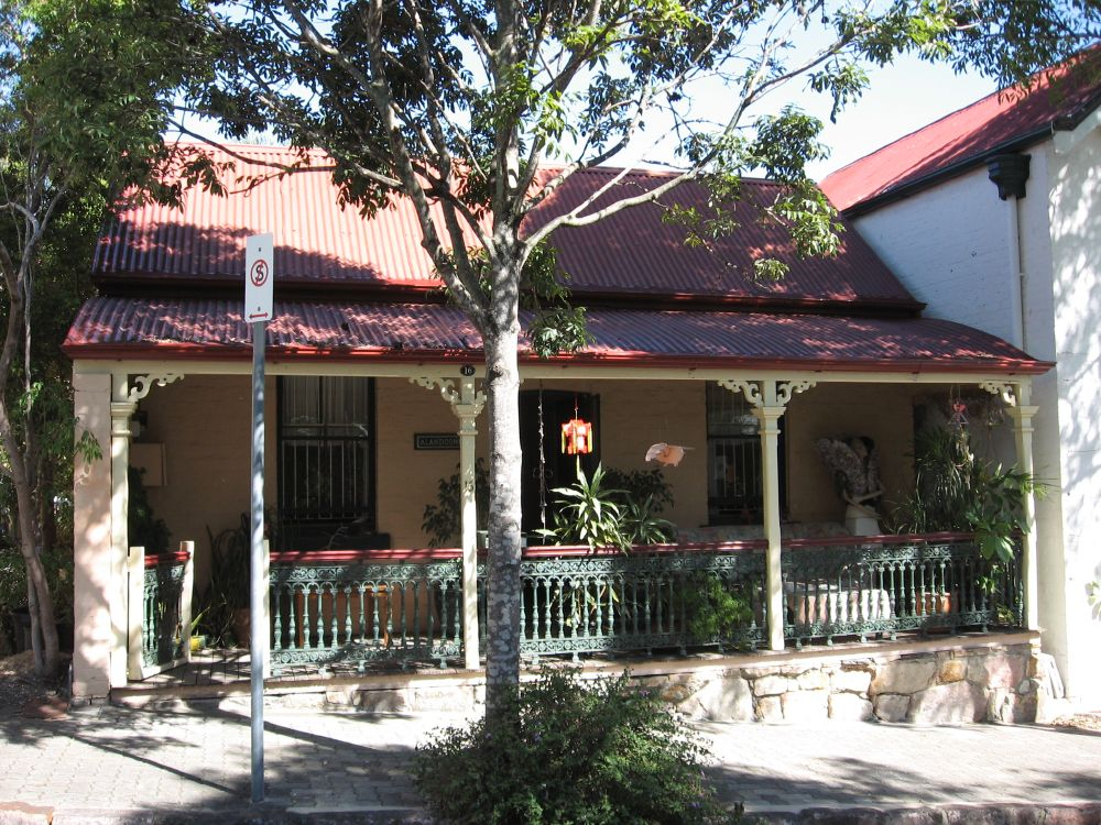 Moody's Cottages (2009) - free-standing Allandoon